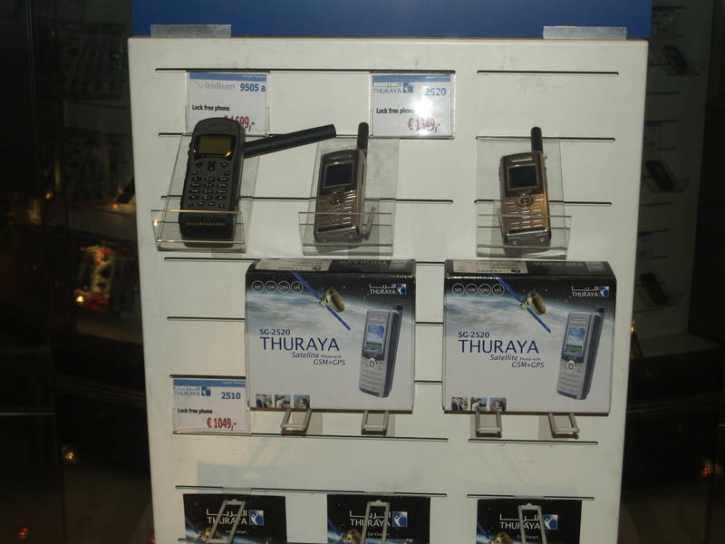 Schiphol Airport, Satellite phones on display